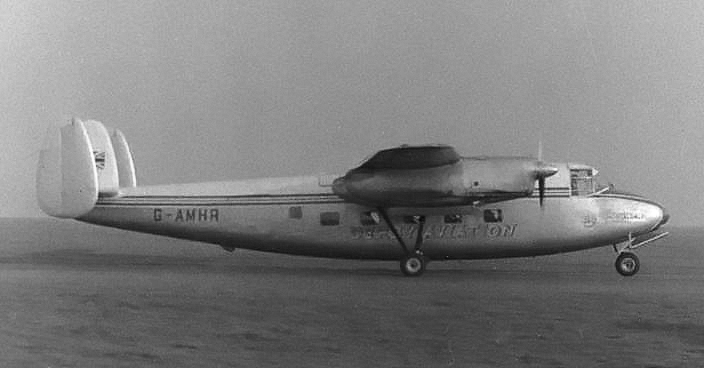 Derby Aviation Handley Page Miles Marathon at Manchester